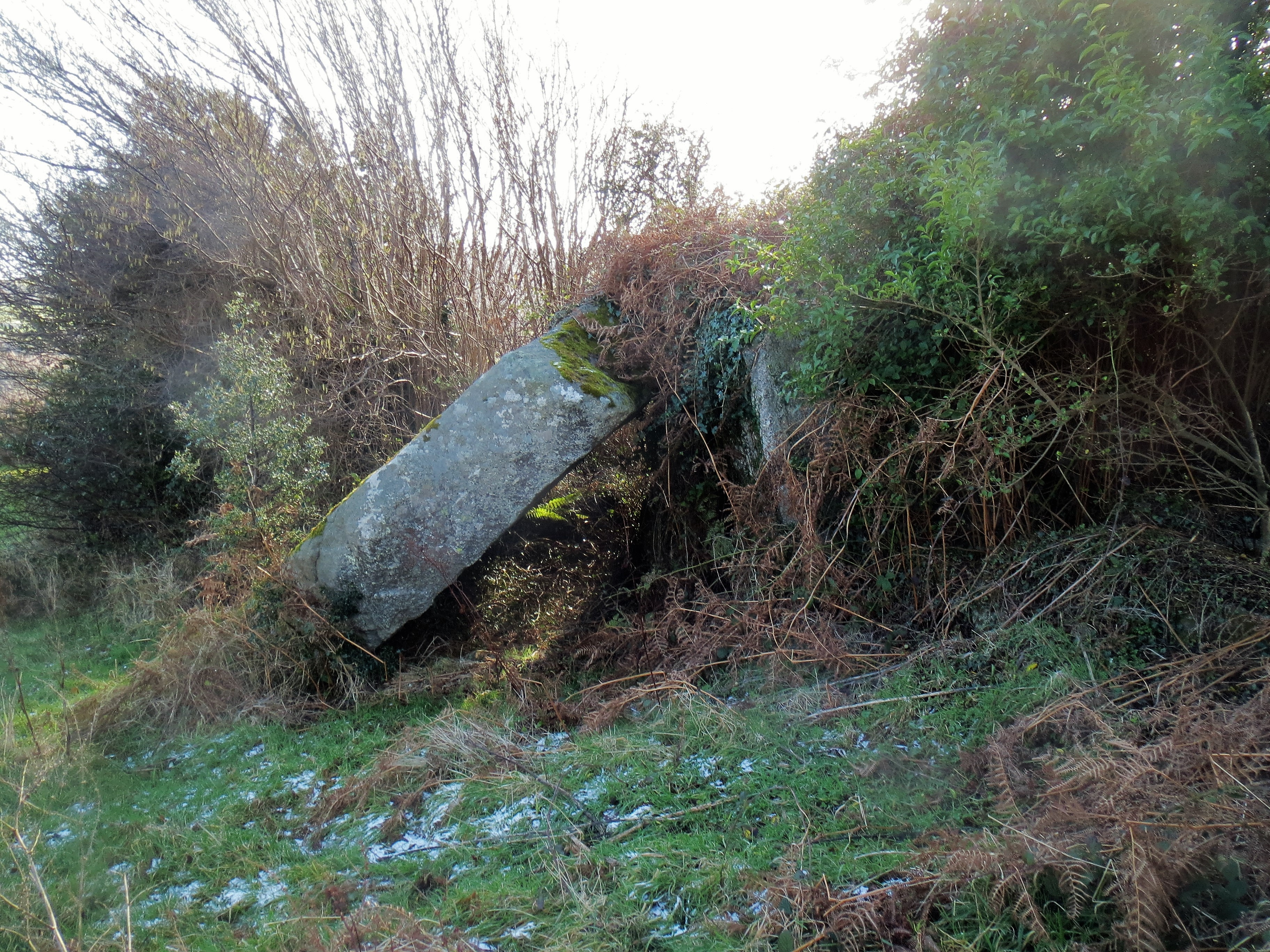 Portal Tomb Glaskenny/Onagh